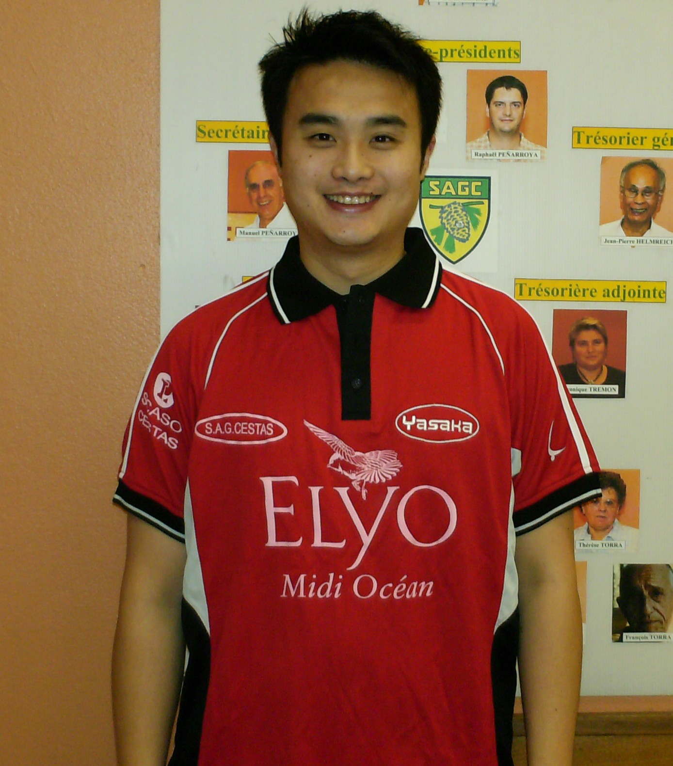 Lin Ju at Cestas in January 2008